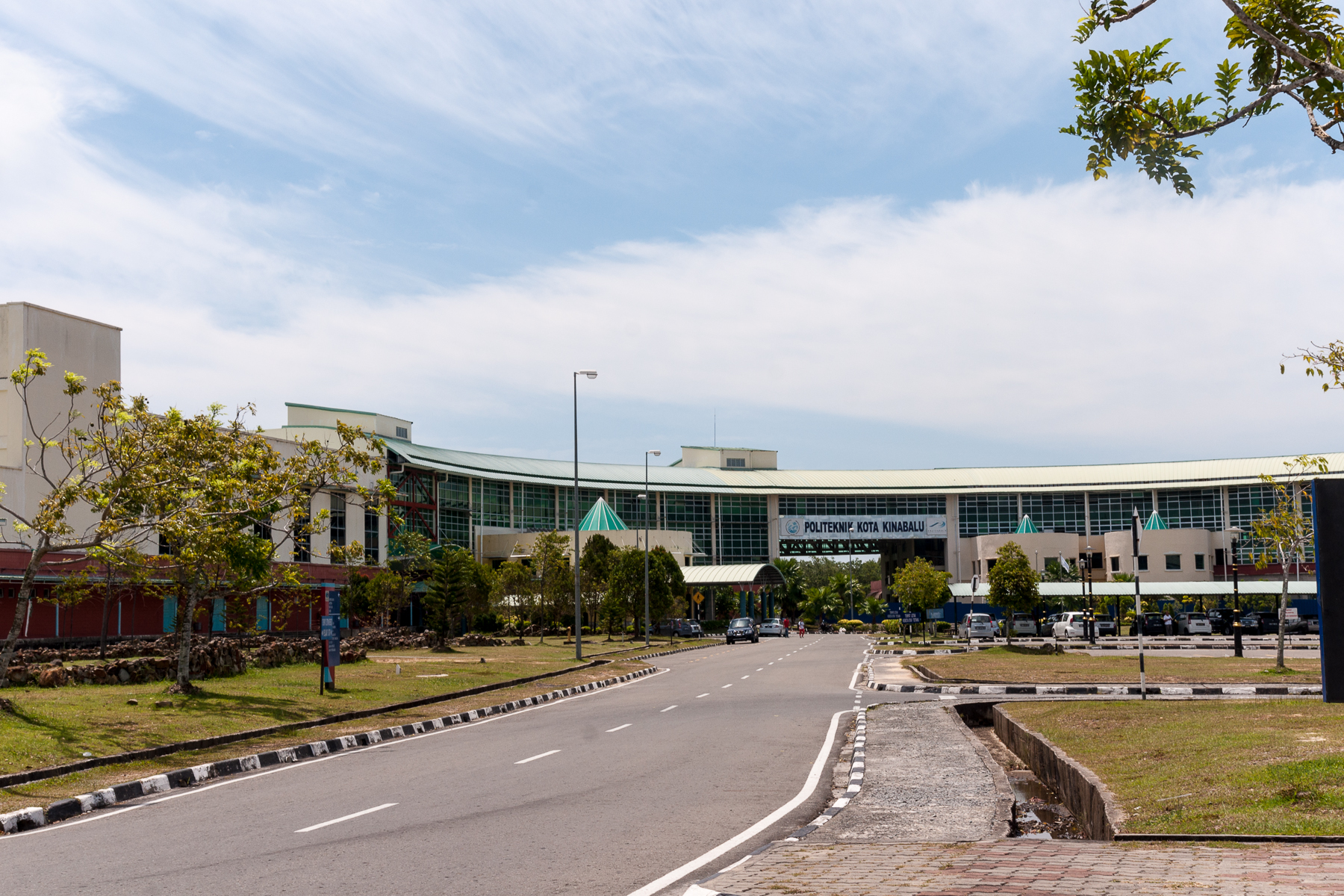 Kota Kinabalu, Politeknik Kota Kinabalu)